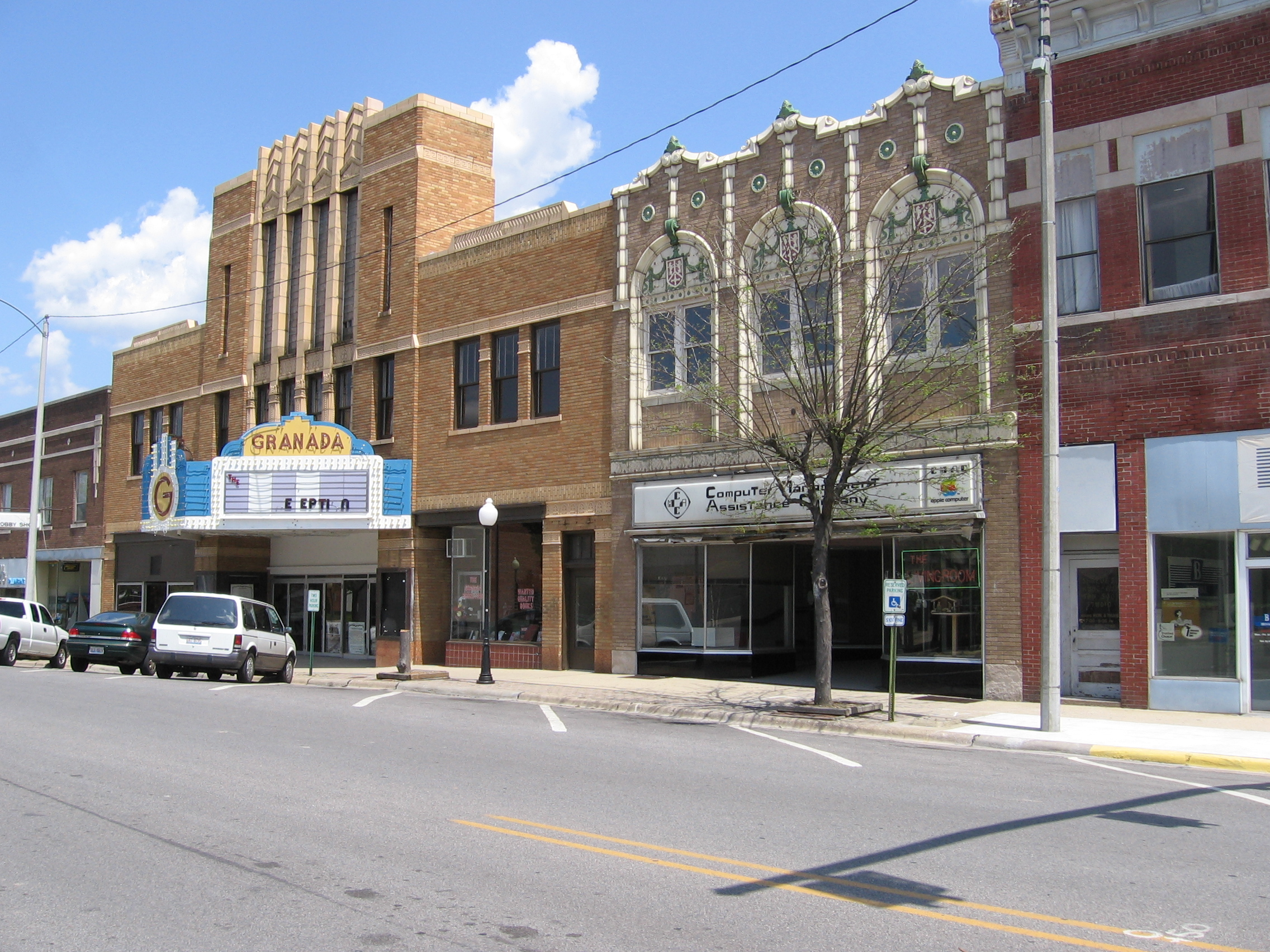 Town center of Mount Vernon, Illinois, USA